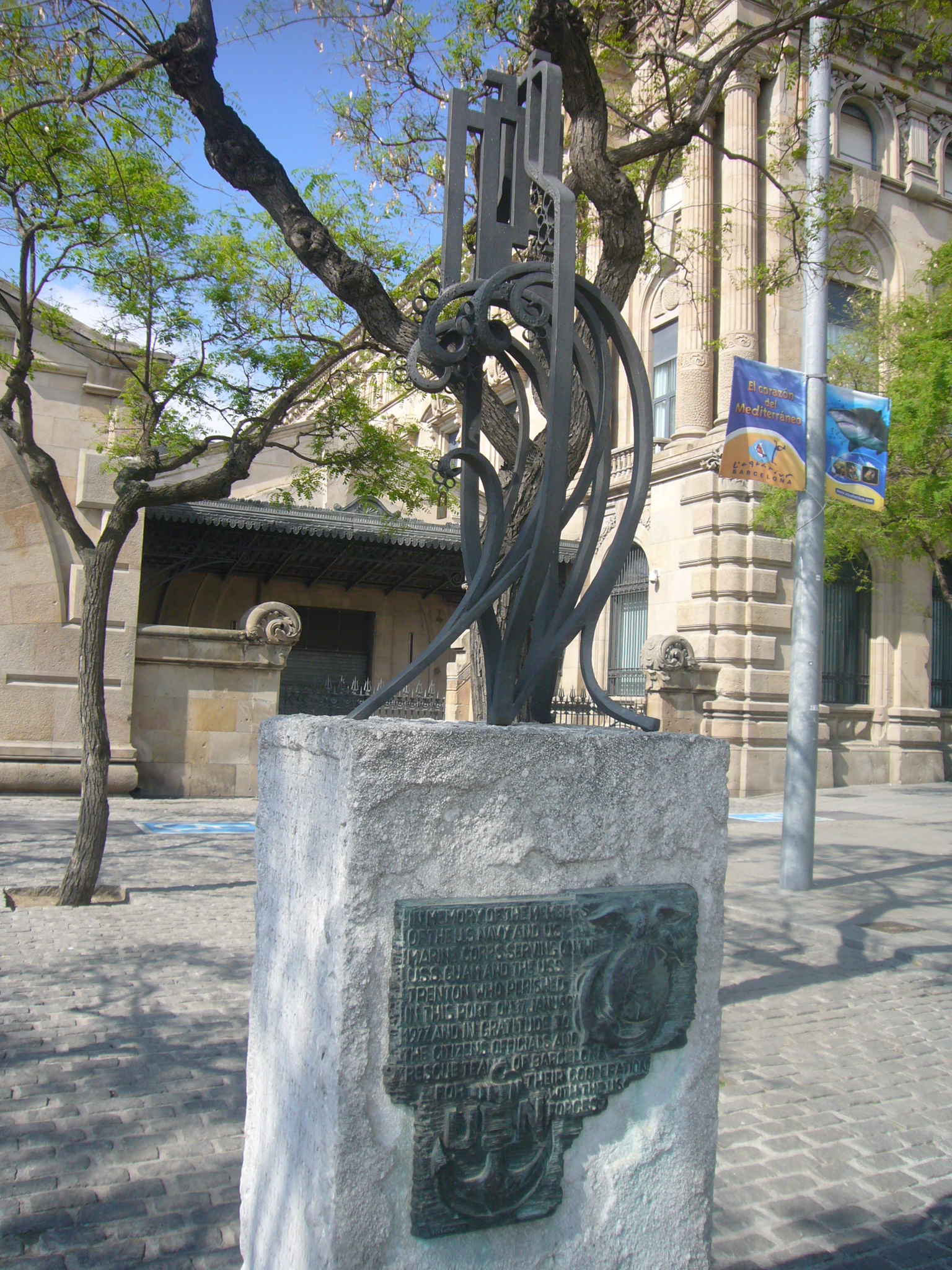 US Naval memorial to those who died in 1977 (Port of Barcelona). It commemorates the death of 49 marine/sailors who perished in the waters of the harbour. On the freezing cold night of January 17th, 1977, more than one hundred marine/sailors boarded a liberty boat. Minutes later, the Basque merchant ship - Urlea crashed into the Naval liberty boat—probably because of a navigational error on the part of the Urleas' pilot—and capsized the Naval vessel, throwing the marines/sailors overboard. Many died in the cold January waters of shock, hyperthermia or heart attack. Some managed to swim to the shore. A number survived for two hours in the air pocket formed under the boat, until they were rescued by the combined efforts of the Navy and the Barcelona salvage crews.